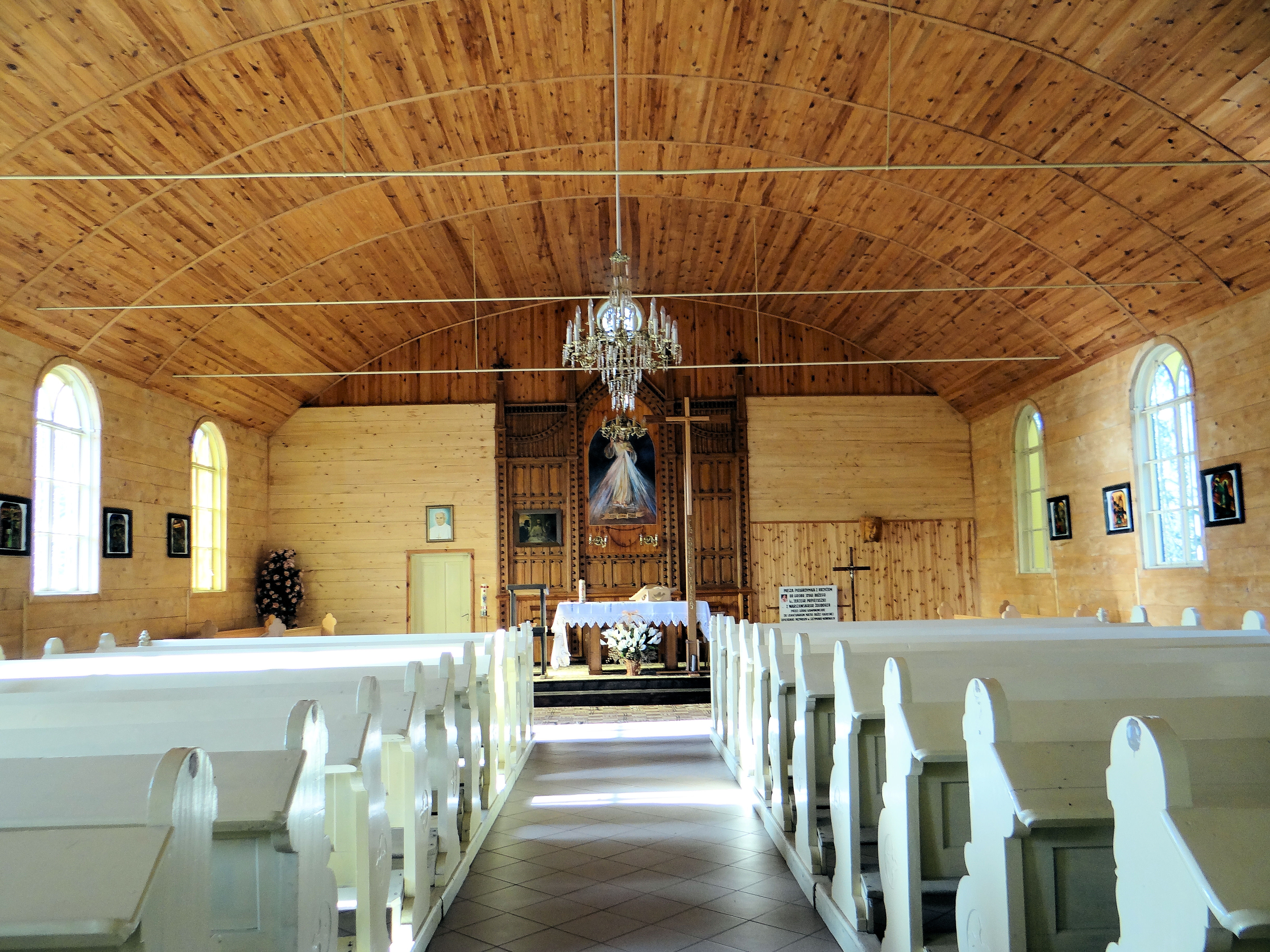 Interior of Nativity of the Blessed Virgin Mary Church in New Secymin